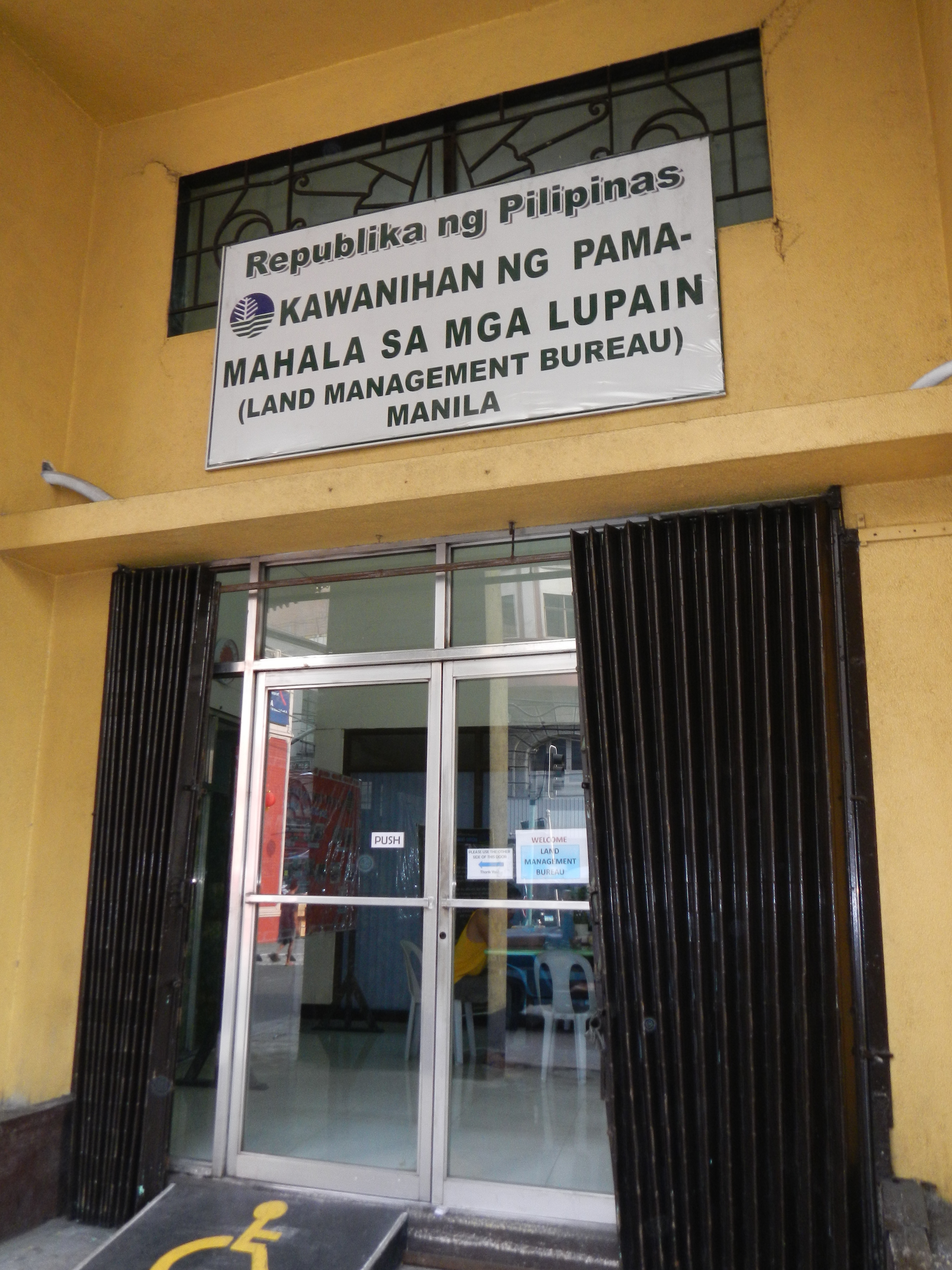 Upload Wizard photos of - a) Jones Bridge, Manila [1], a bridge that spans the Pasig River[2] in the Philippines connecting the districts of Binondo[3] on Rosario Street (Calle Rosario, now Quintin Paredes Street) with the center of Santa Cruz, Manila[4] the previous bridge that connected the two districts was the Puente Grande (Great Bridge), later called the Puente de España [5] (Bridge of Spain) located one block upriver on Nueva Street (Calle Nueva, now E. T. Yuchengco Street) considered to be the oldest established in the Philippines, beside the Postal Bank and Manila Central Post Office, Binondo, Manila and view of Santa Cruz, Manila b) beside also, is the Estero de Binondo [6] one of six major tributaries of Pasig river mentioned in Rizal's Noli Me Tangere Coordinates: 14°35'52"N 120°58'26"E Barangay 282 Zone 26 - part of the List of rivers and estuaries in Metro Manila[7] - with pumps of the Maynilad Water Services [8] Water Delivery Sewerage and Sanitation - Canal de la Reina floodgate [9] Pumping station [10] that end at Muelle de Binondo - the M. dela Industria Bridge, 15 Tons maximum, Pumping Stations, West Metro Manila Flood District, under MMDA, c) the Savory restaurant, beside the Arko ng Pagkakaibigang Pilipino-Tsino (Filipino-Chinese Friendship Arch at Binondo), Philtrust Bank, Bureau of Lands Management (Philippines) [11] Plaza Cervantes, Binondo, Manila, Philippines cor. Quintin Paredes Street (Binondo District) corner Escolta Street [12].